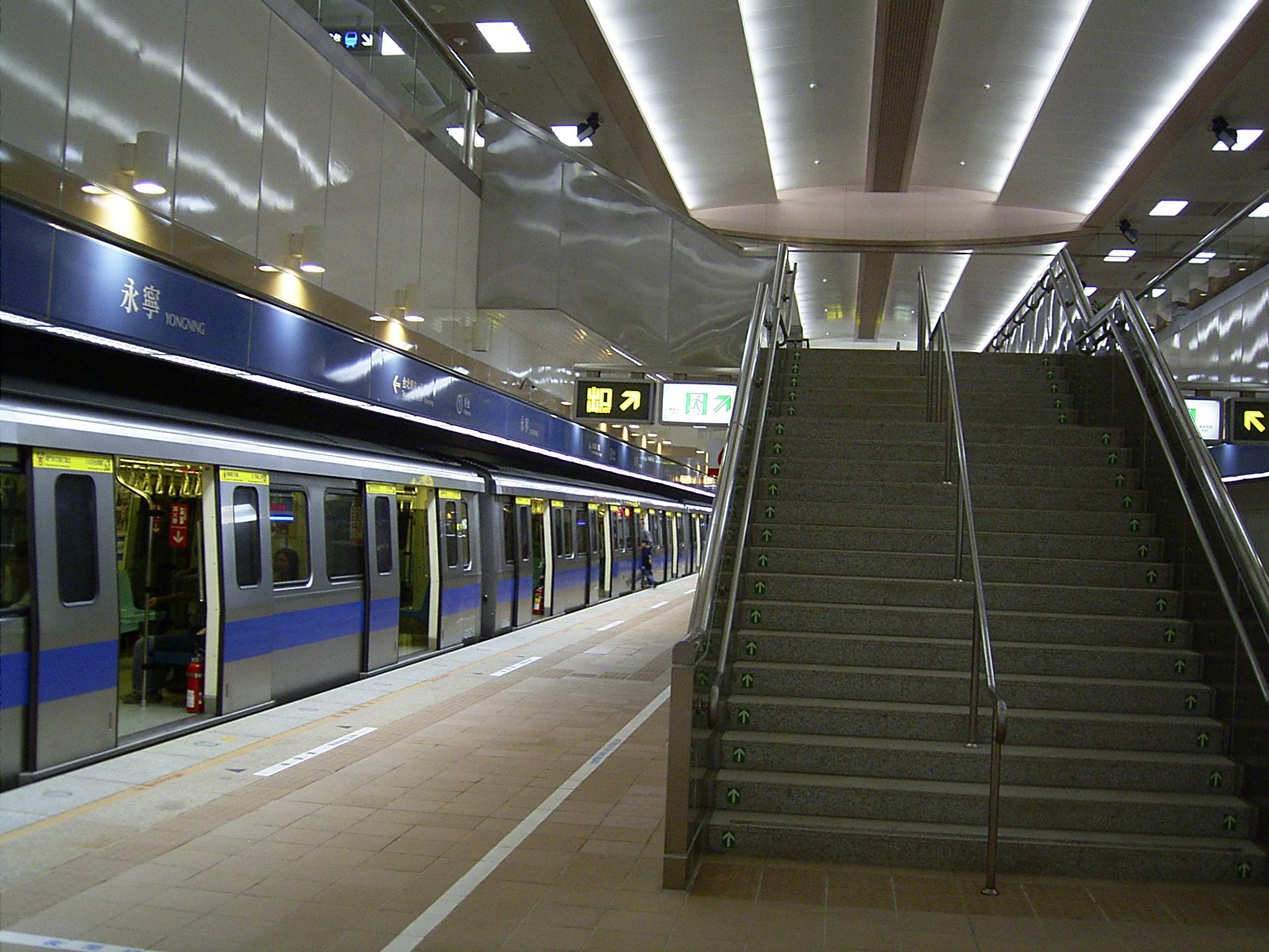 Platform 1, Yongning Station, Taipei MRT.中文（台灣）: 臺北捷運永寧站第一月臺。